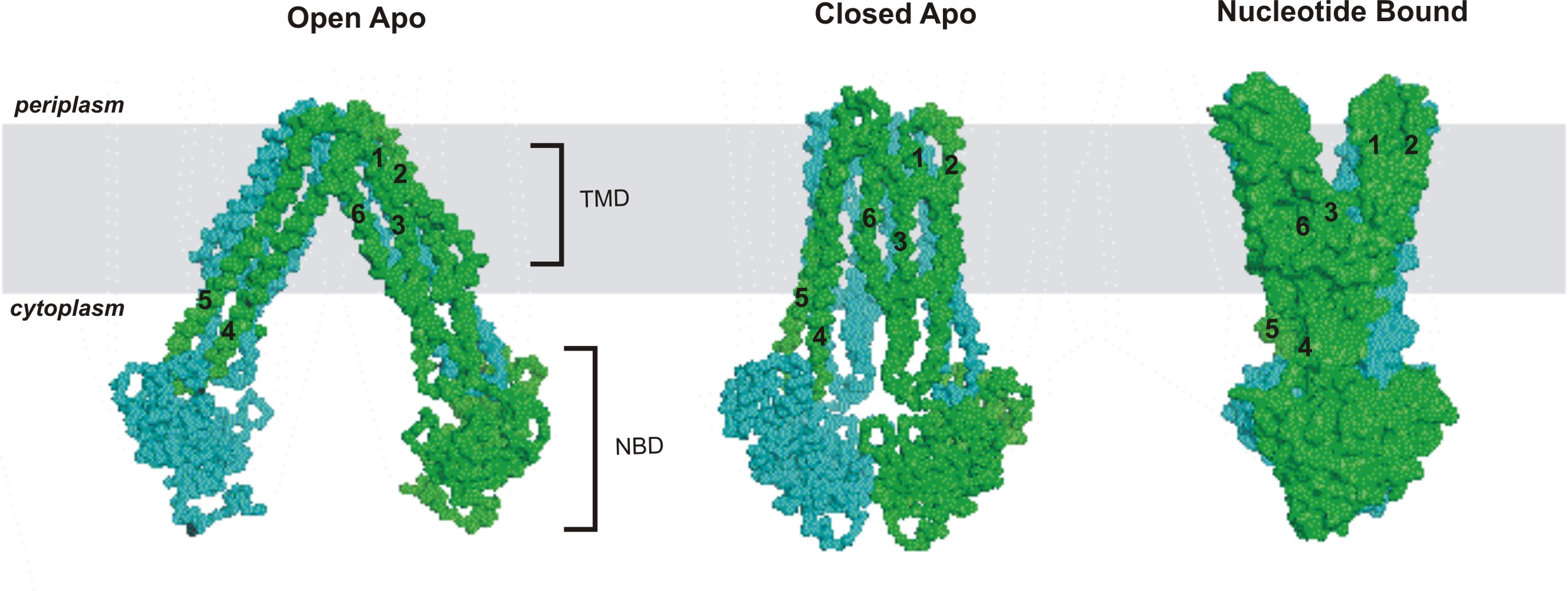 Crystal Structures of MsbA